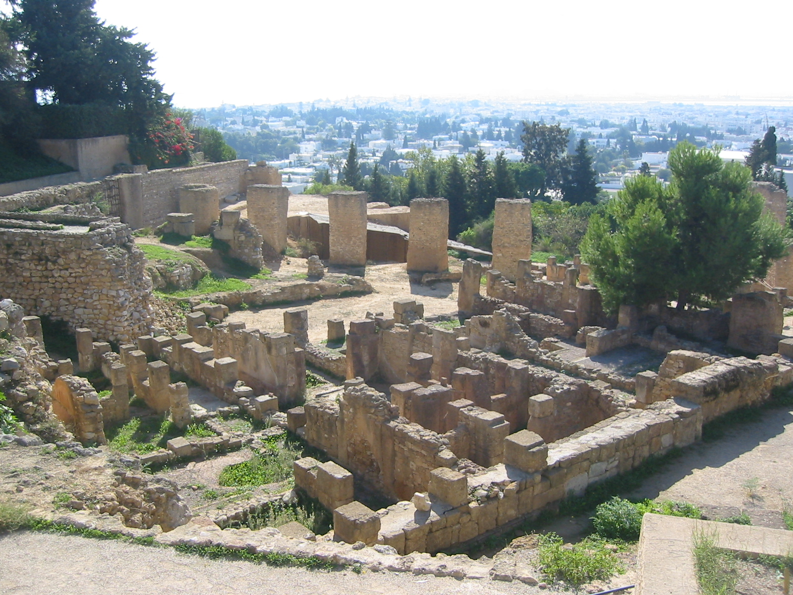 The Punic Quarter, Carthage, Tunisia.